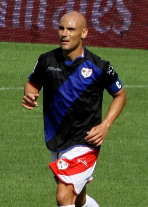 Movilla playing for Rayo Vallecano against Athletic Club in San Mamés